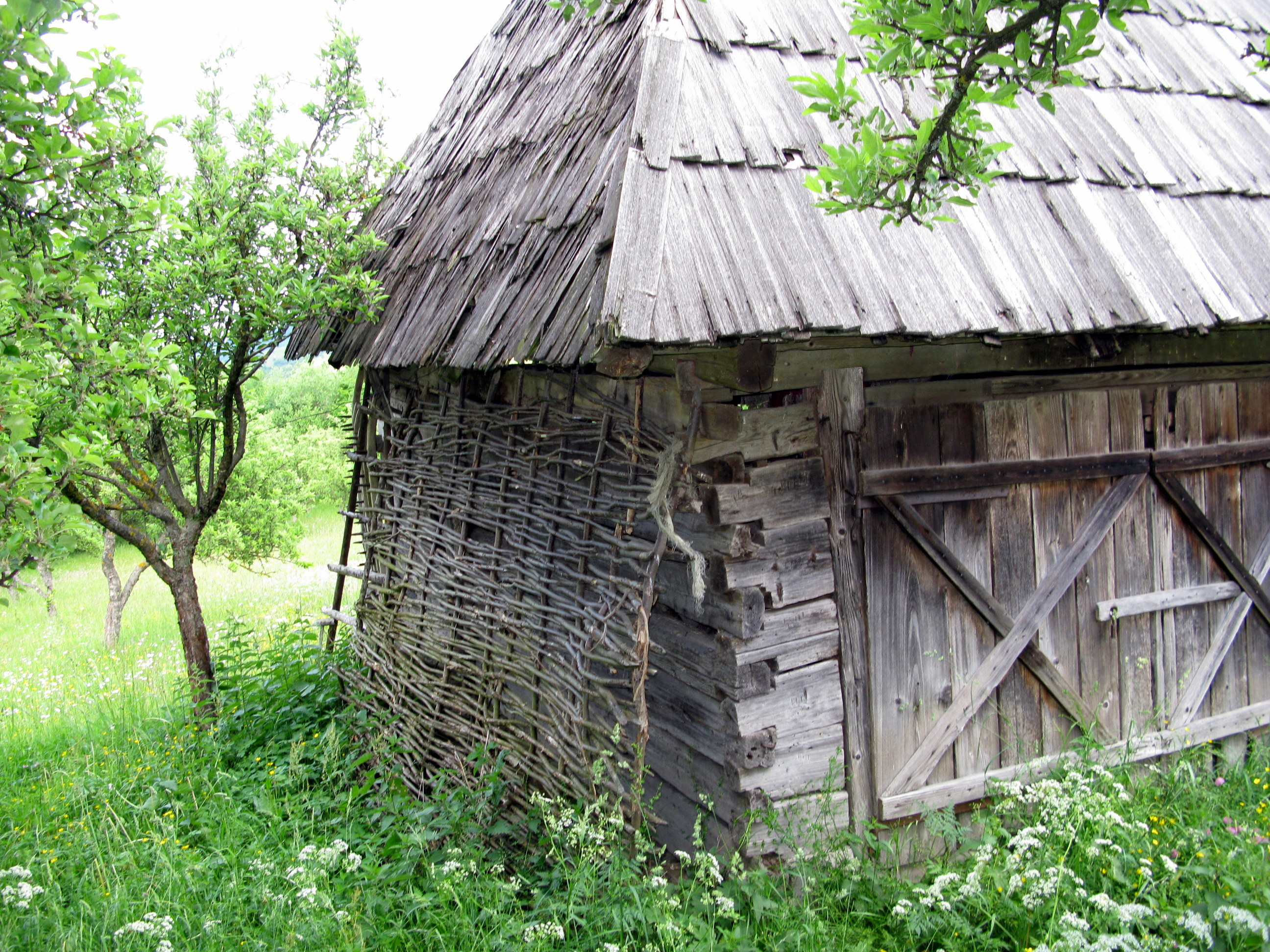 Abandoned crofter farm near Botiza / Maramureş in north of Rumania / EU. The farm was abandoned several years ago.